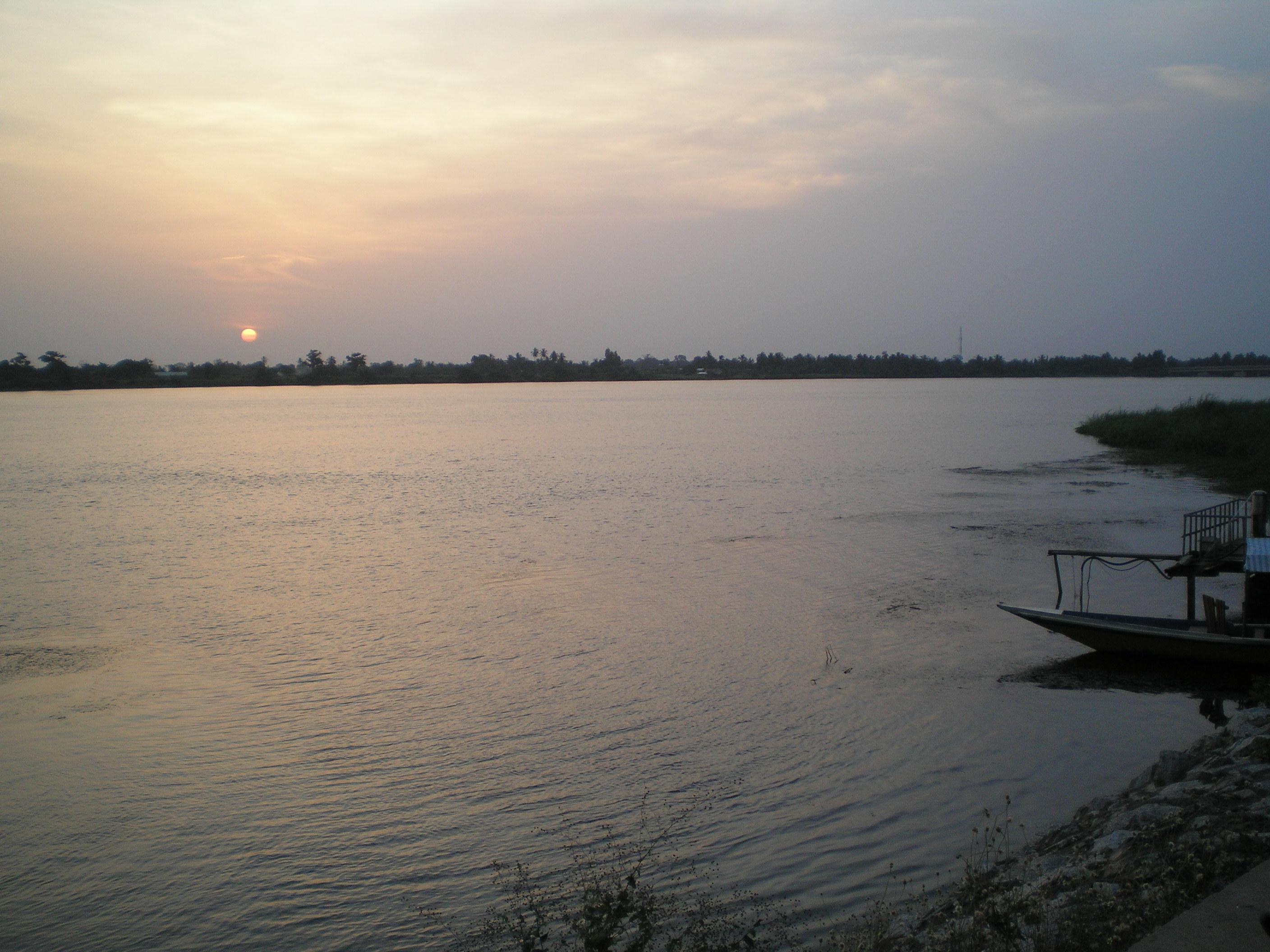 Sunset on the Volta river at Sogakope, Ghana